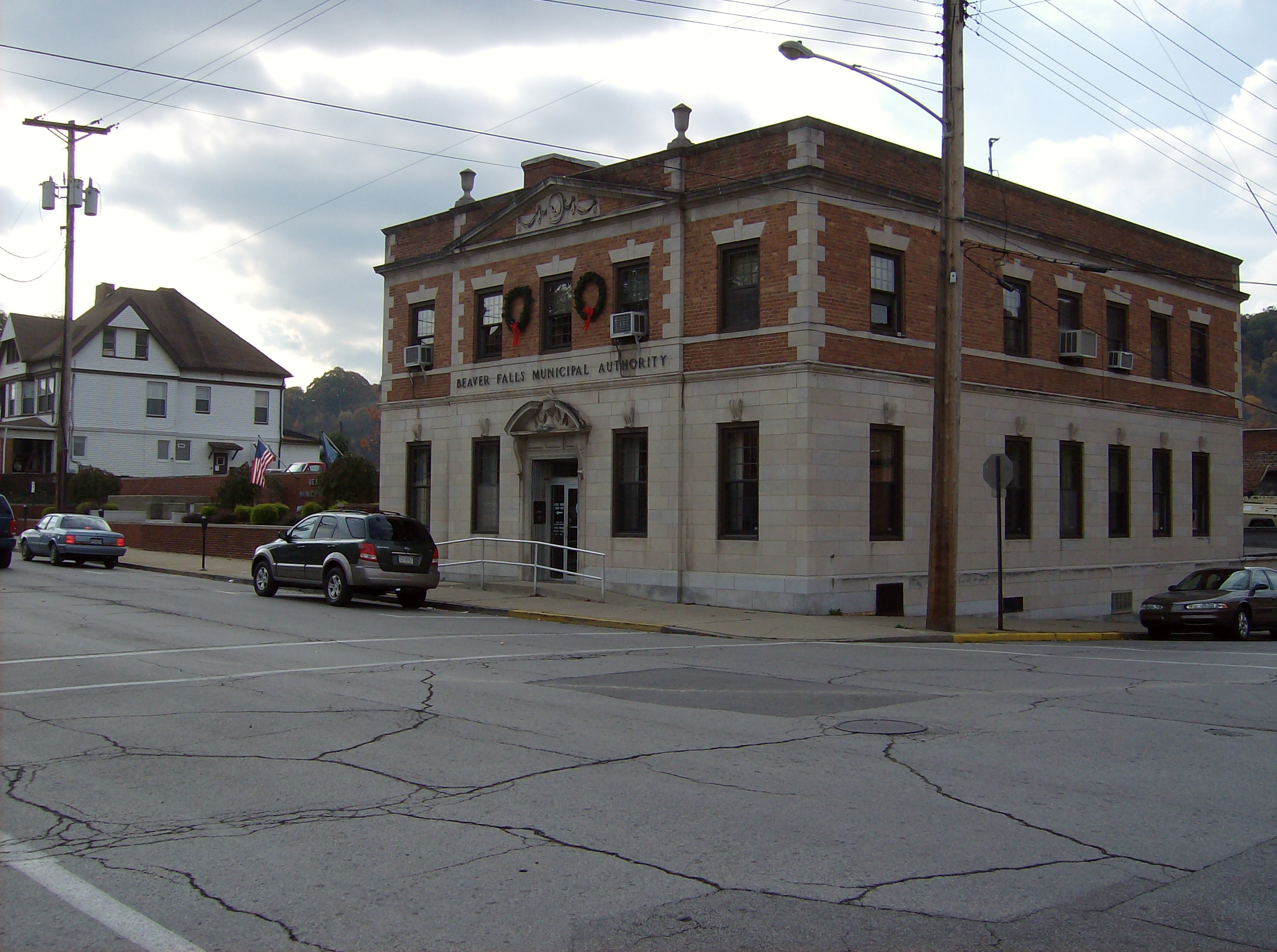 Front view of a municipal building (not City Hall) at 15th Street and 8th Avenue in downtown Beaver Falls, Pennsylvania, United States.